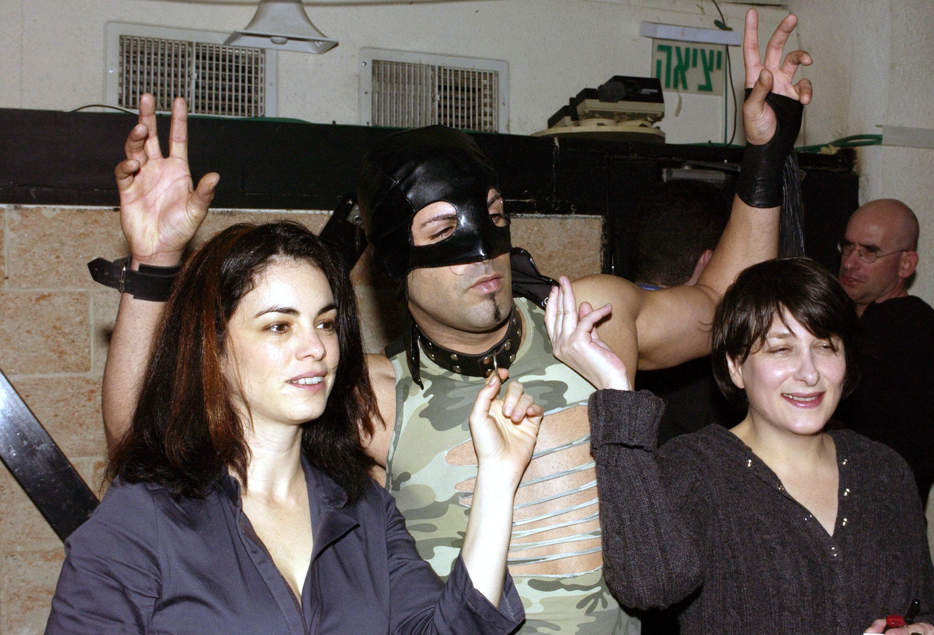 "Dungeon" night club in Jaffa. in the photo, author Limor Nachmias (r) launching her new book, and Yael Hadar (l).